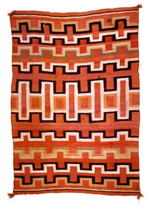 Transitional blanket Date: Circa 1880-1885 “I like this because the squares are all squares—there are no diamonds to mix it up. The weaver was consistent in her design choices.” —Barbara Ornelas (laughing) “Diamonds are just little dots, like pixels, which are squares, so they’re all squares anyway.” —Michael Ornelas “Yeah, mom. You take a diamond and turn it and—you know what you’ve got?—you’ve got a square!” —Sierra Ornelas (smiling) “This blanket was woven at the end of the “wearing blanket era,” just as the railroad came into the Southwest in 1881. The heavier handspun yarns and synthetic dyes are typical of pieces made during the transition from blanket weaving to rug weaving.” —Ann Hedlund Tapestry weave, interlocked joins 0.79 x 1.13 m; Tassels 0.040 m 44.488 x 31.102 in.; Tassels 1.575 in. Catalog No. 8369, Arizona State Museum